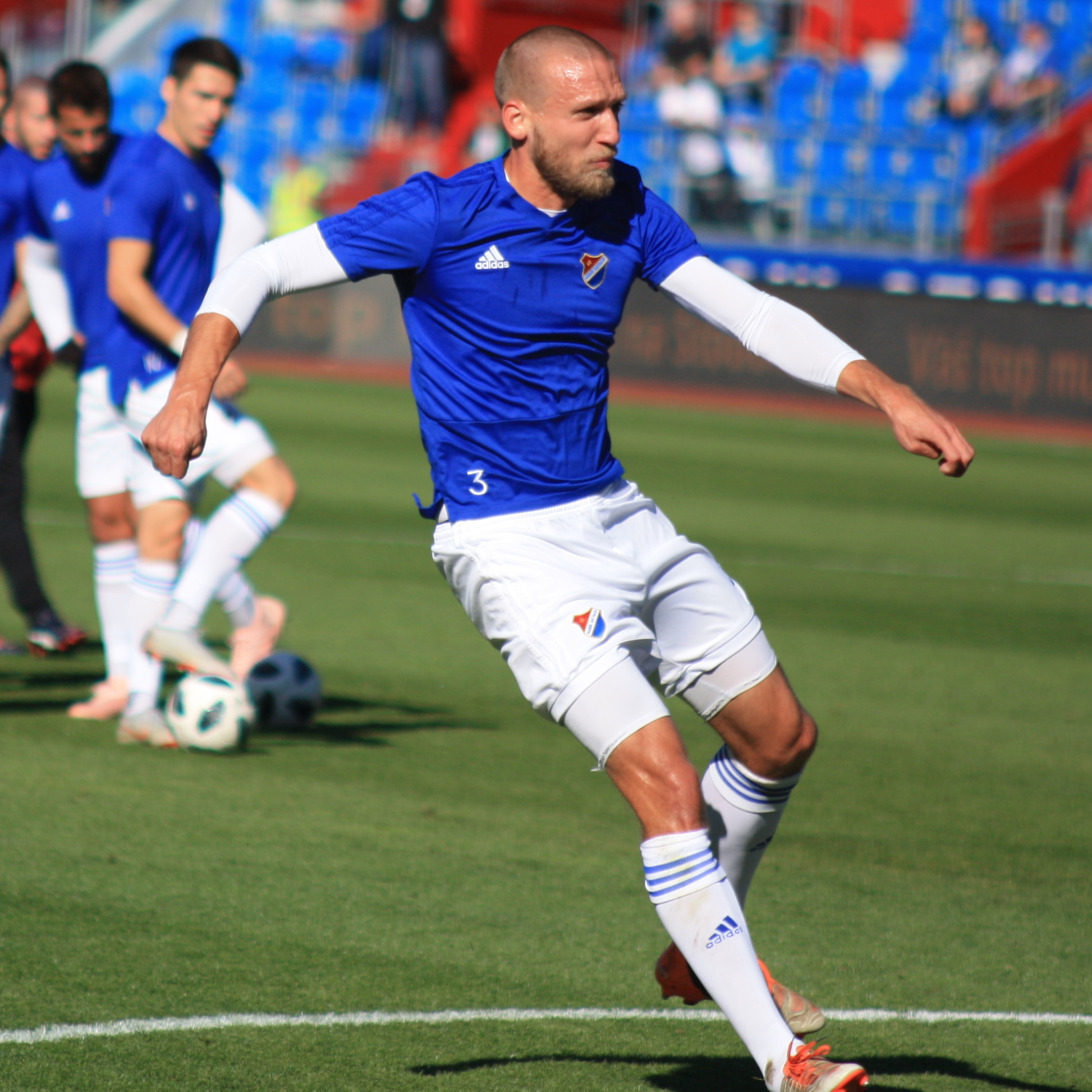 Martin Šindelář At Czech First League (Fortuna Liga) match FC Baník Ostrava-SK Slavia Praha played on 30. 9. 2018